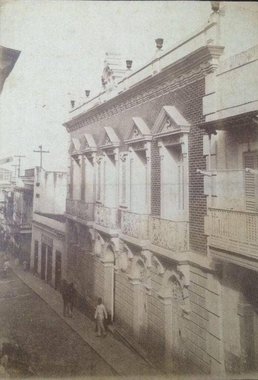 Facade of "Banco Español de Puerto Rico," in Tetuan Street 152, San Juan